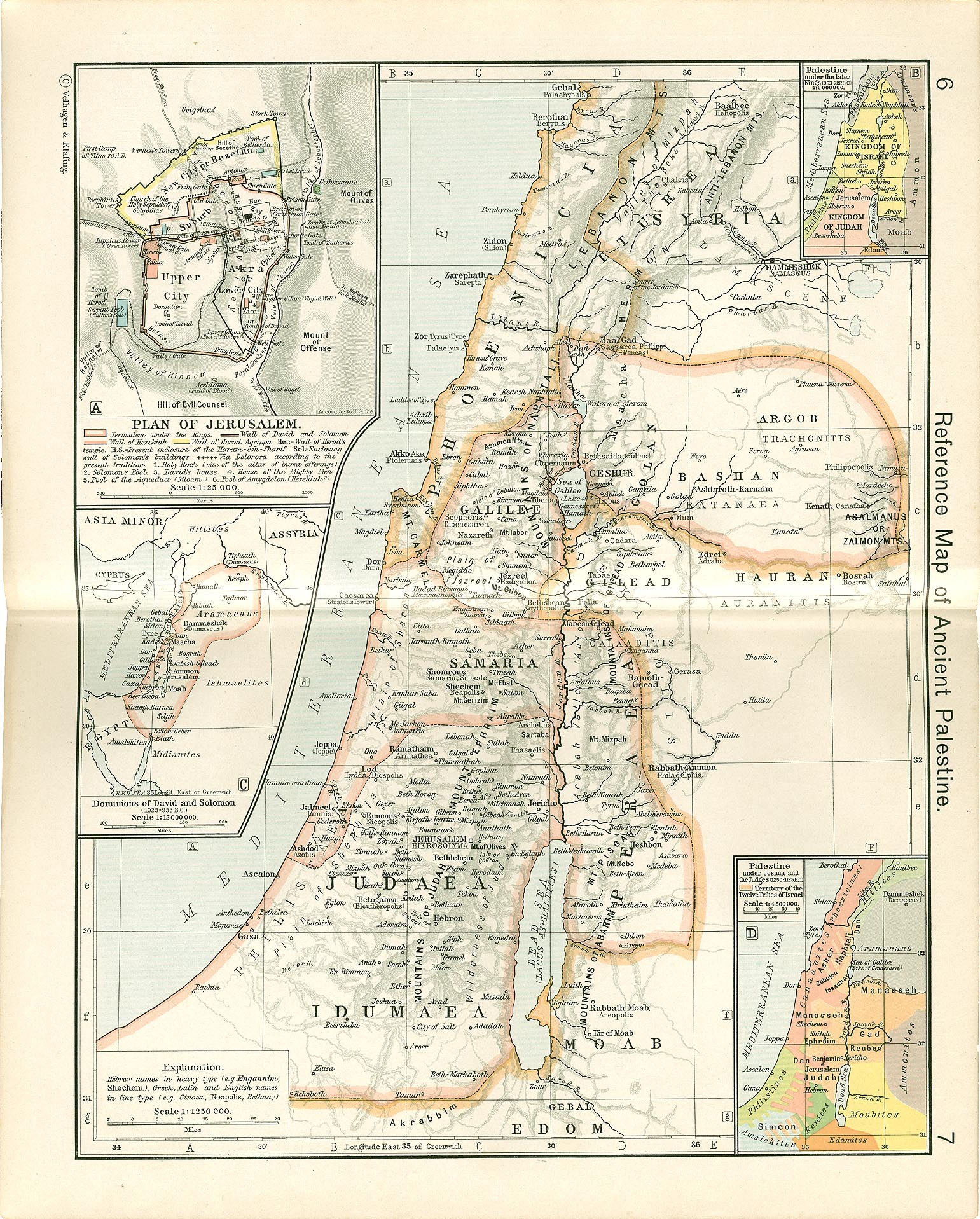 Reference Map of Ancient Palestine. Historical Atlas by William R. Shepherd, 1911. Courtesy of the University of Texas Libraries, The University of Texas at Austin. Insets: Plan of Jerusalem. Dominions of David and Solomon (1025-953 B.C.). Palestine under the later Kings (953-722 B.C.). Palestine under Joshua and the Judges (1250-1125 B.C.). From The Historical Atlas by William R. Shepherd, 1911 edition